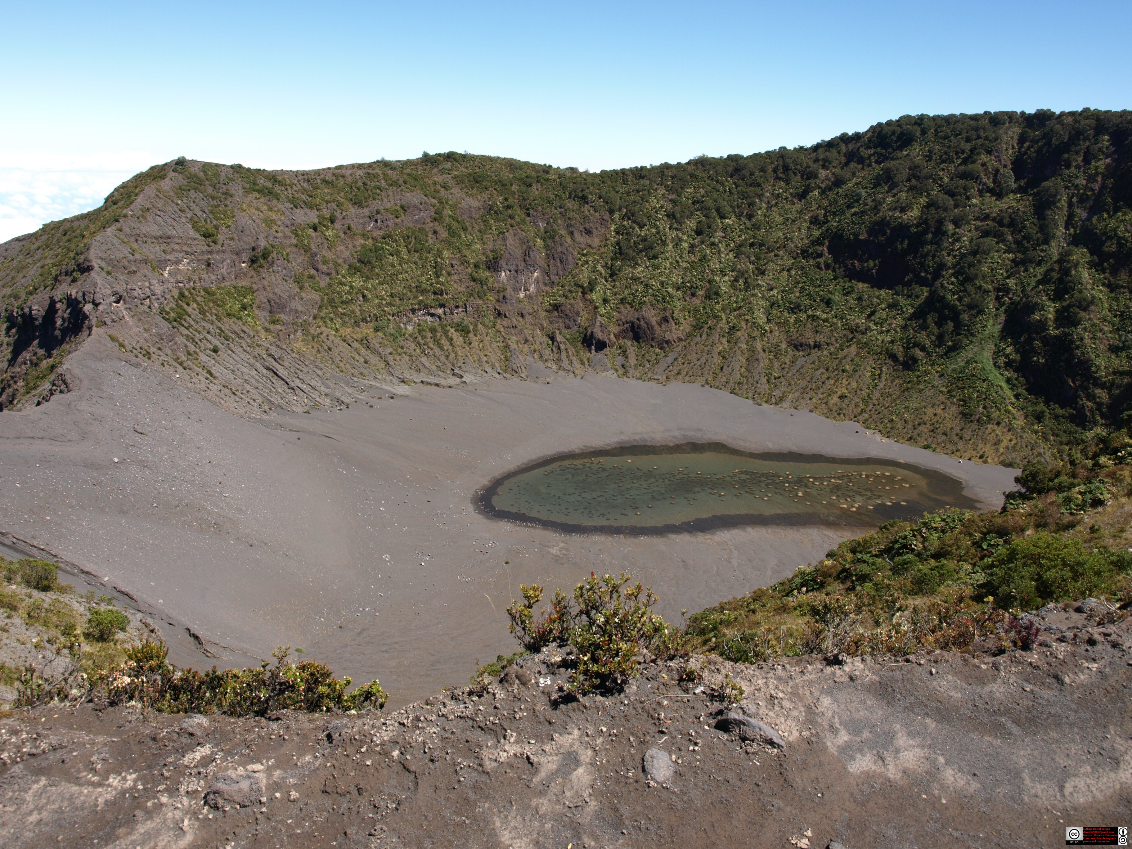 Distant Diego de la Haya Crater, Irazu Volcano, Costa Rica